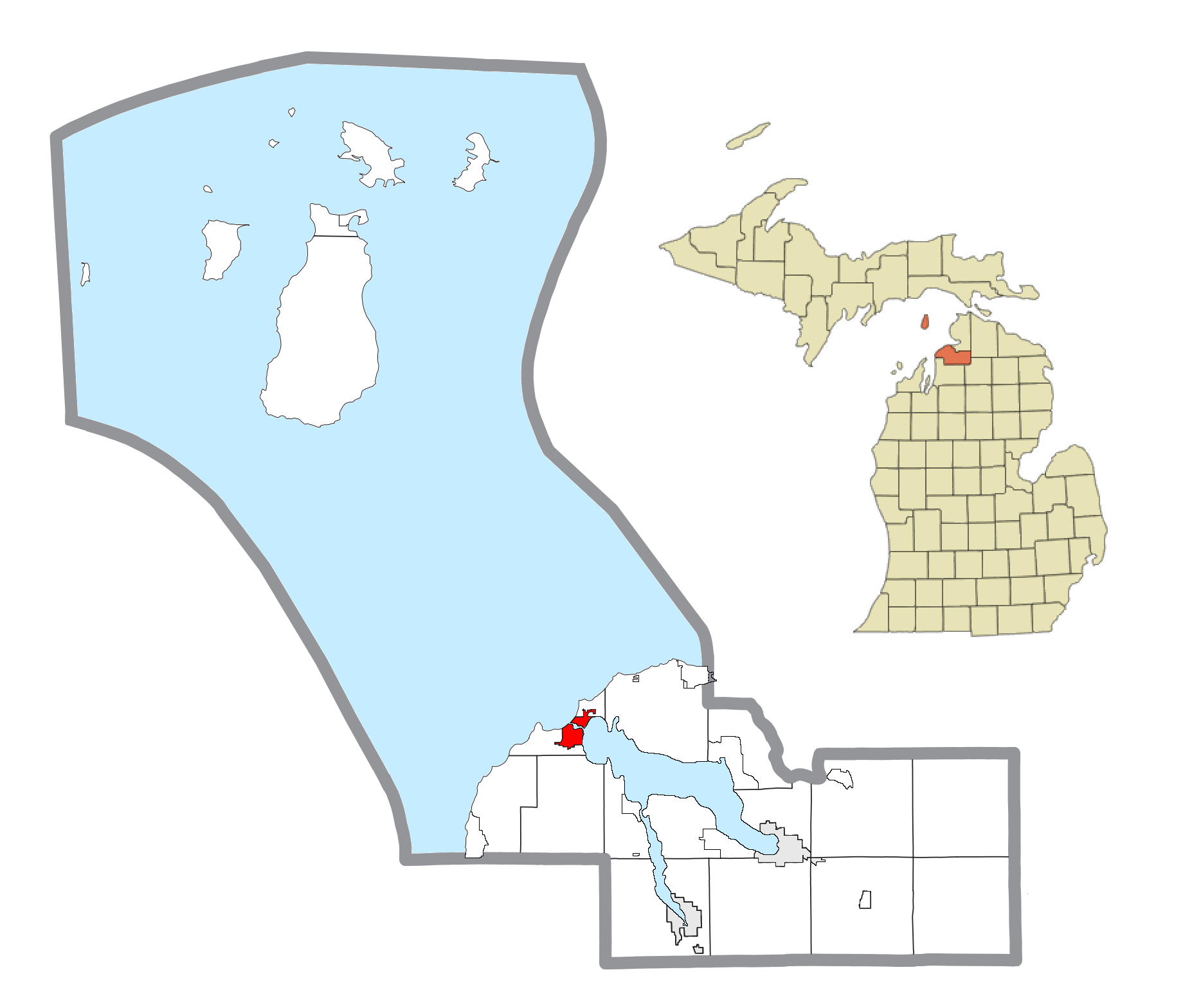 Charlevoix, MI